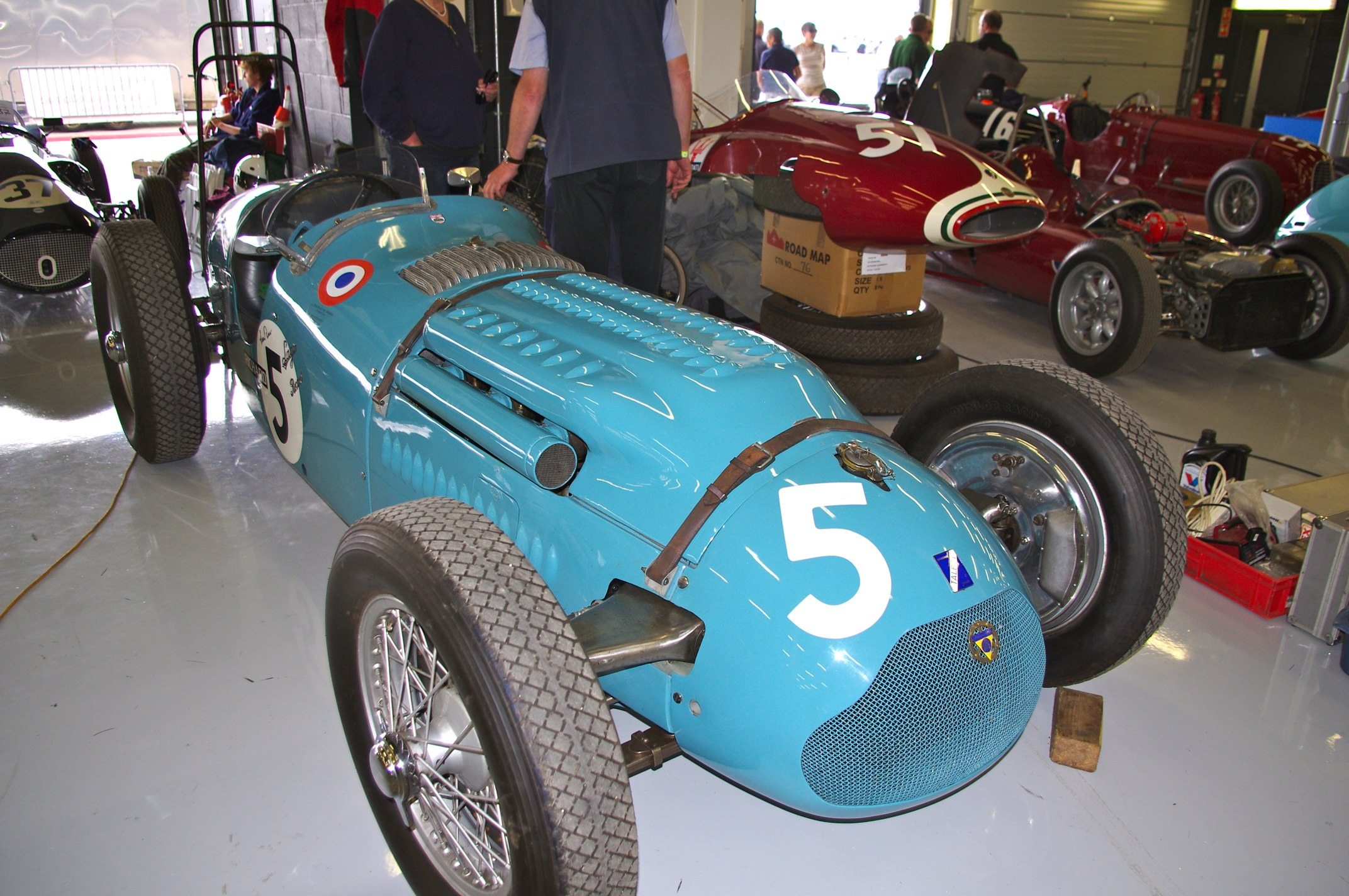 Silverstone Classic 2011